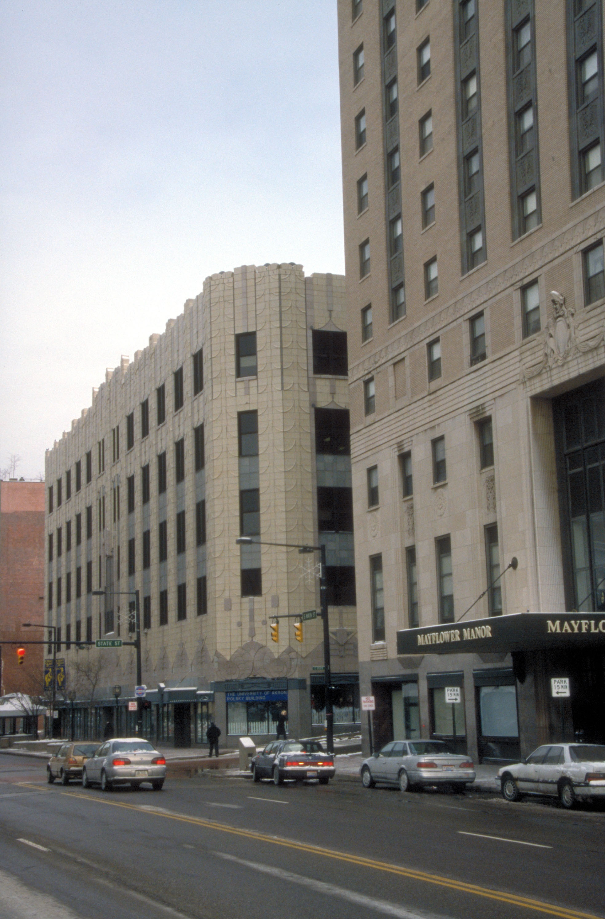 Art deco buildings in downtown Akron, Ohio.